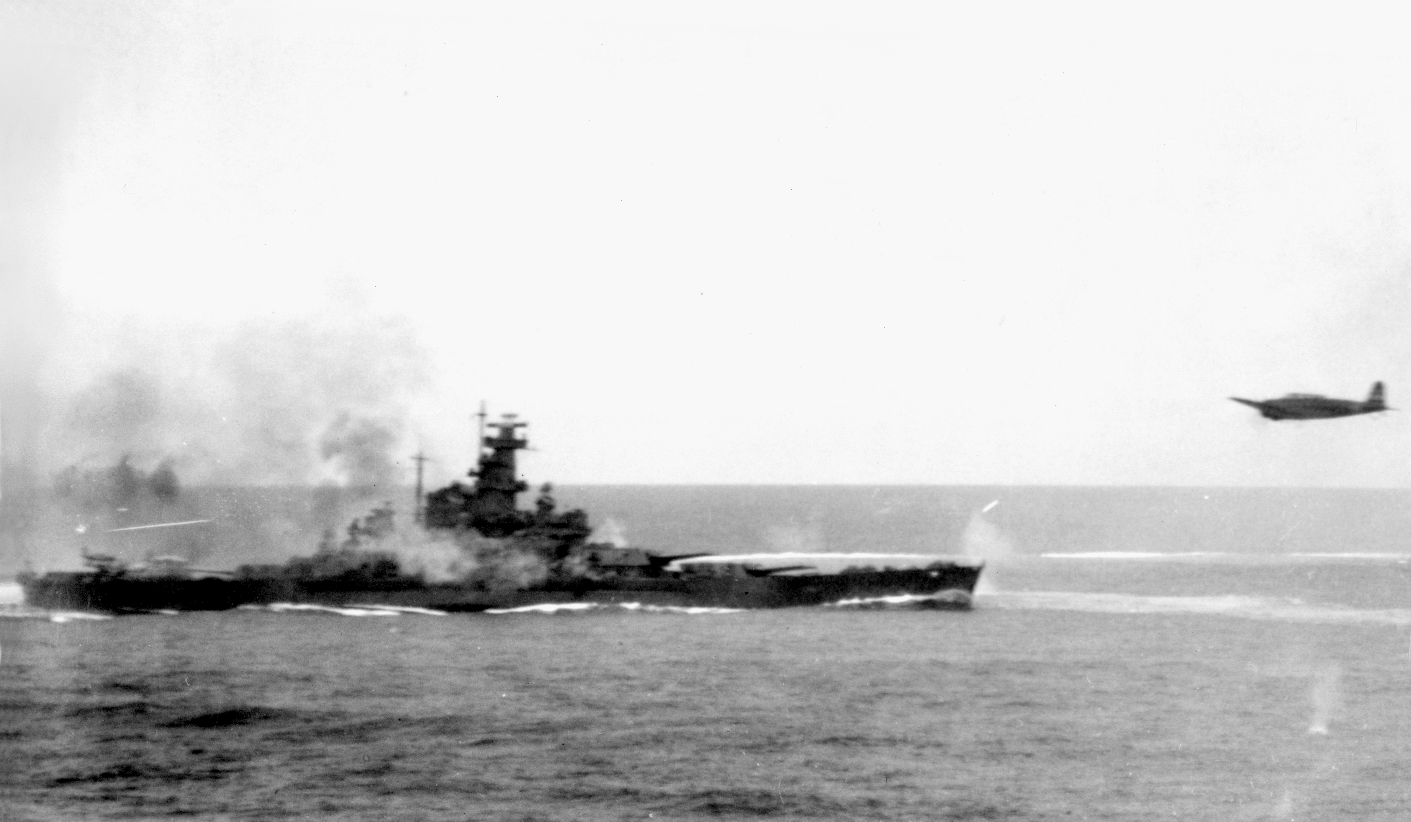 The U.S. Navy battleship USS South Dakota (BB-57) firing her anti-aircraft guns at attacking Japanese planes during the Battle of Santa Cruz, 26 October 1942. A Japanese Type 97 Nakajima B5N2 torpedo plane ("Kate") is visible at right, apparently leaving the area after having dropped its torpedo.